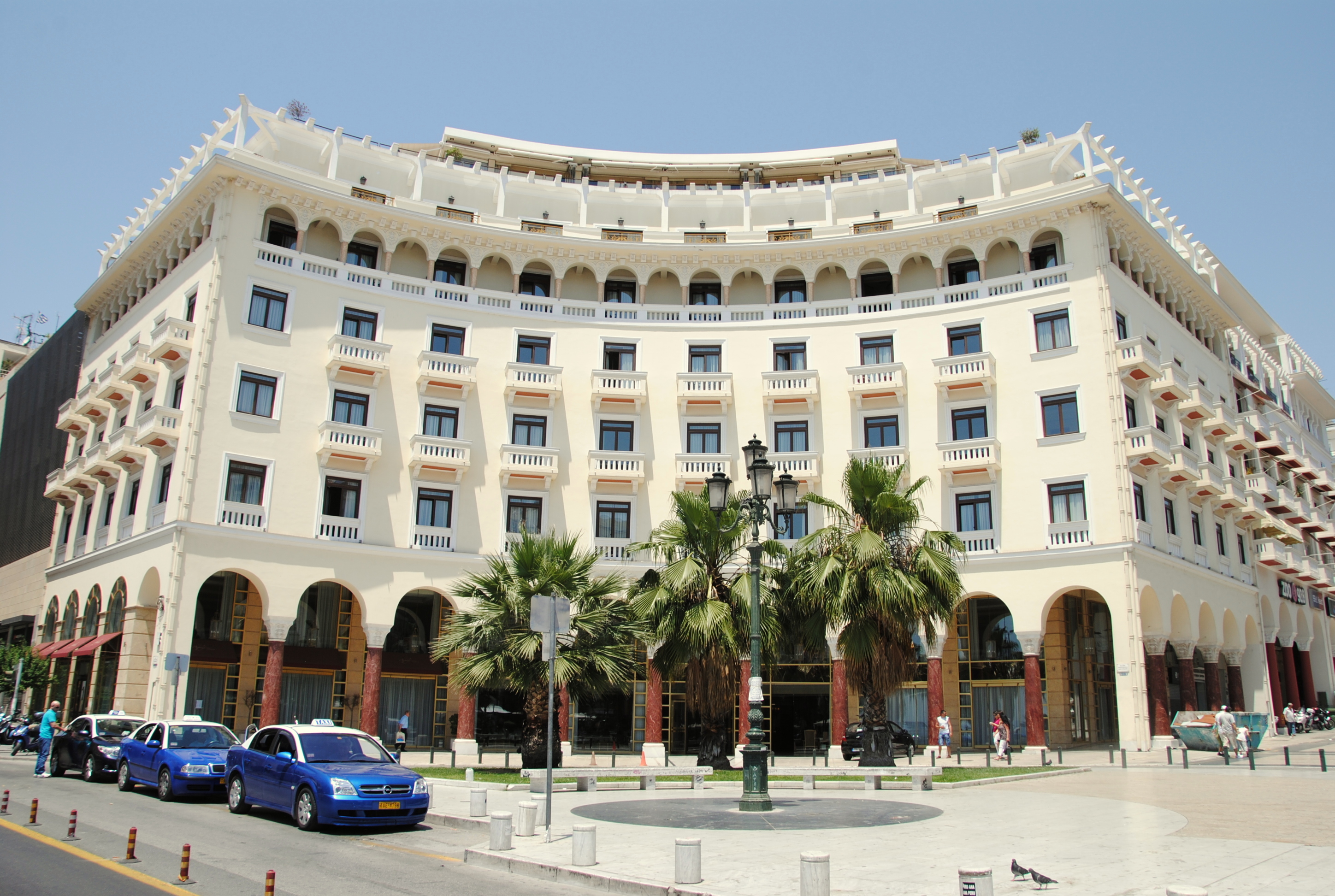 Aristotelous square corner. Thessaloniki, Greece